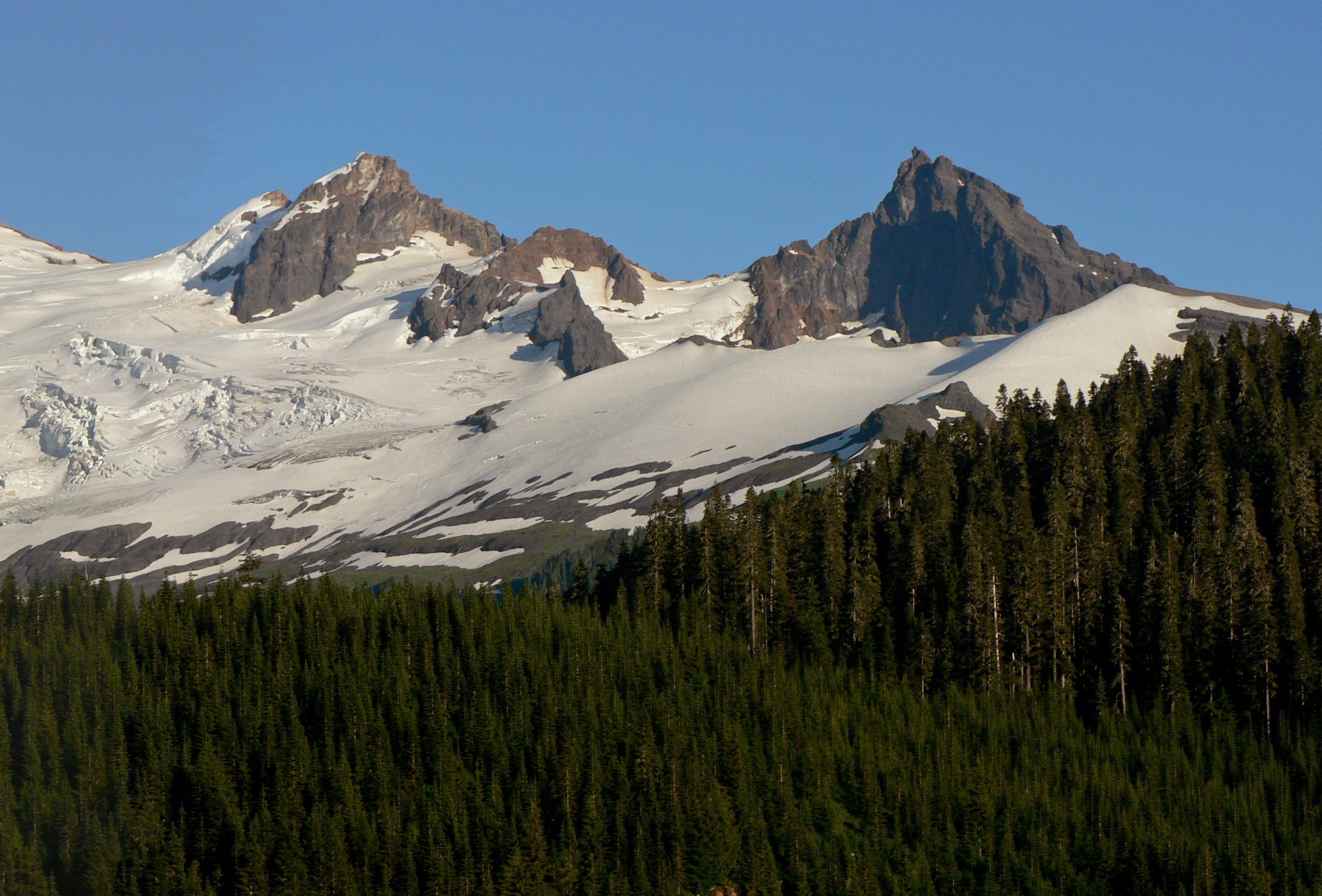 Crop of File:Mount_Baker_22181.JPG; Colfax Peak (9440 ft, 2877 m, right center); Lincoln Peak (9080 ft, 2768 m, right)